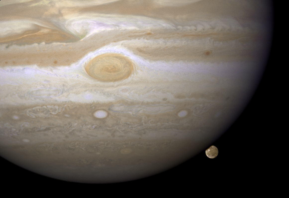 Image of Jupiter and Ganymede